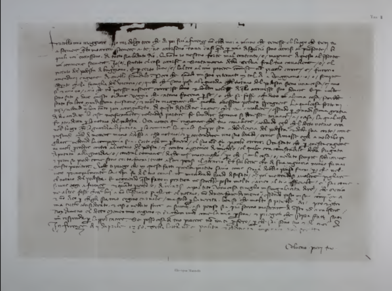 Facsimile of laurentian codex PL CX sup. 41, Biblioteca Medicea Laurenziana, Florence